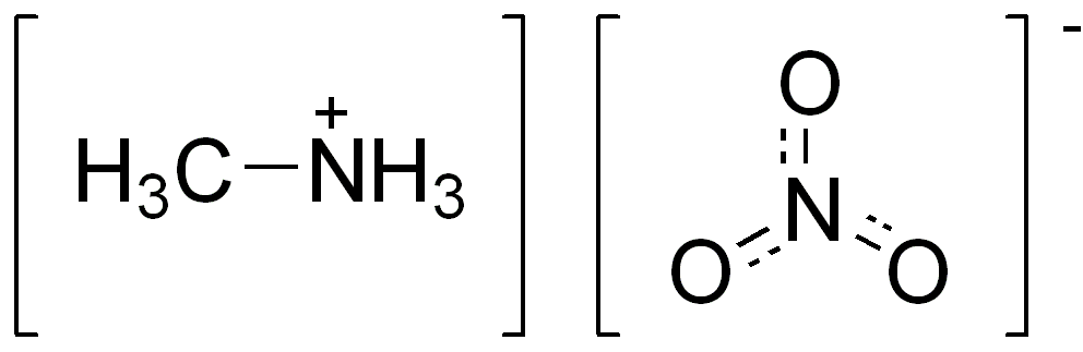 chemical structure of methylammonium nitrate